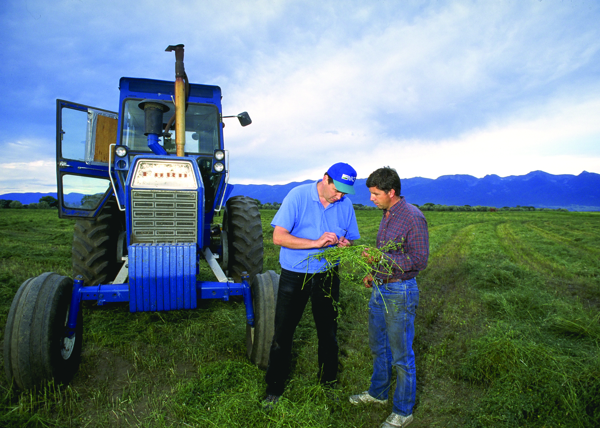 Herb Webb (left), NRCS Resource Conservationist, Flathead Indian Reservation Tribal Complex, Pablo, MT, and Joel Clairmont, tribal member, local extension agent, grain, hay, and cattle producer, discuss the quality of alfalfa he is about to bale. Clairmont farms 400 acres of deeded land, and leases more from the tribe for spring wheat, winter wheat, alfalfa, hay, and commercial beef cattle. [Slide 97CS3037]